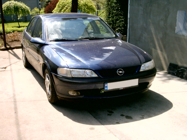 Opel Vectra B Photo taken in Żary, Poland on 02-05-2006 Edited in Adobe Photoshop CS2.